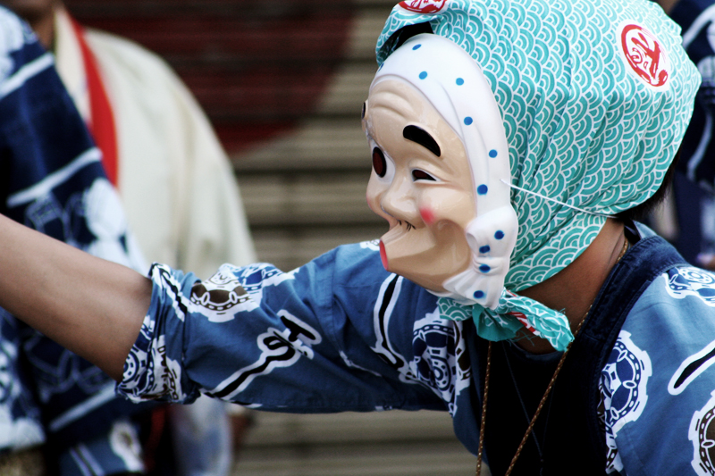 Clownish mask 佐原の大祭秋祭り(諏訪神社秋祭り)